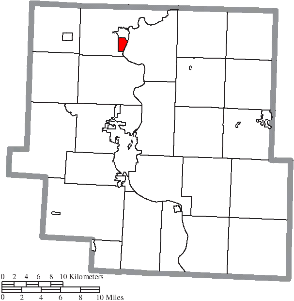 Map of the municipal and township boundaries of Muskingum County, Ohio, United States, as of the 2000 census, with the location of Jefferson Township highlighted. Township borders are shown only in unincorporated areas in order to differentiate incorporated and unincorporated areas more clearly.